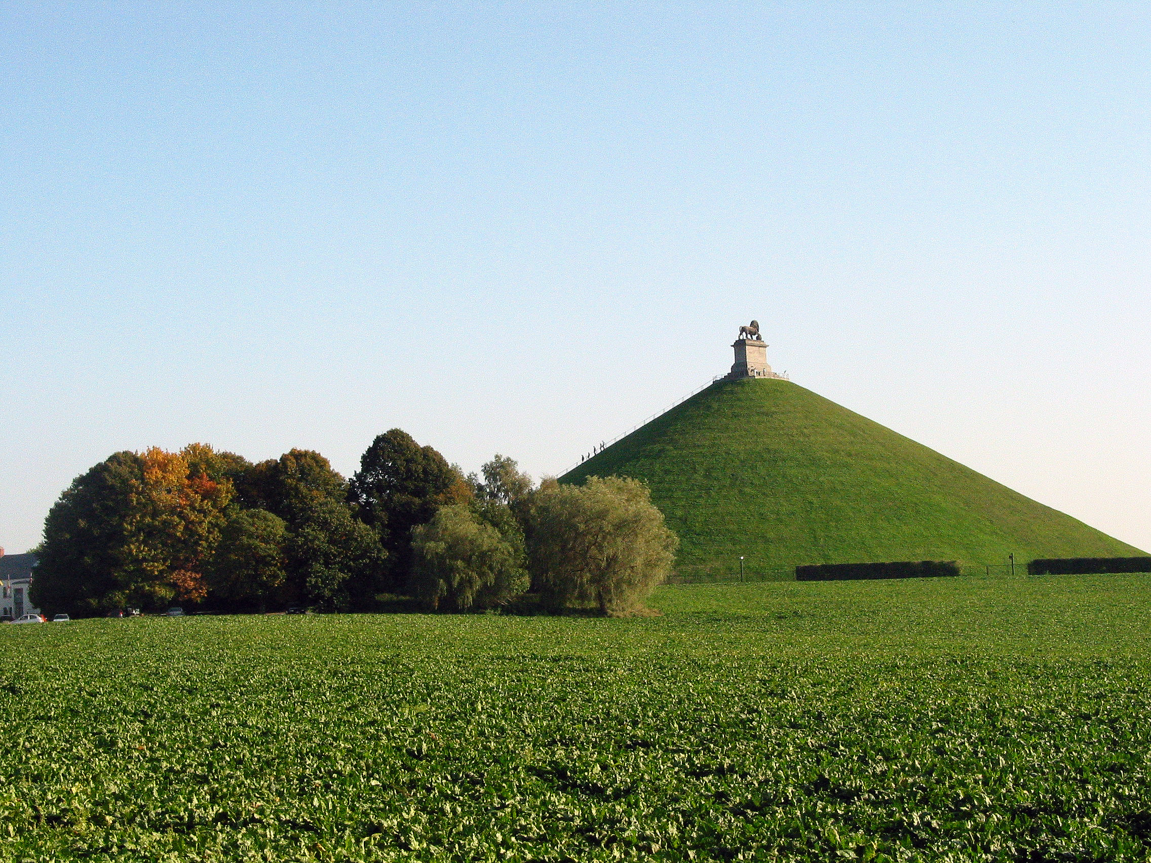 Braine-l'Alleud, the Lion Mound. - Commemorative monument of the Battle of Waterloo standing on the spot where the Prince of Orange was wounded during the fight.